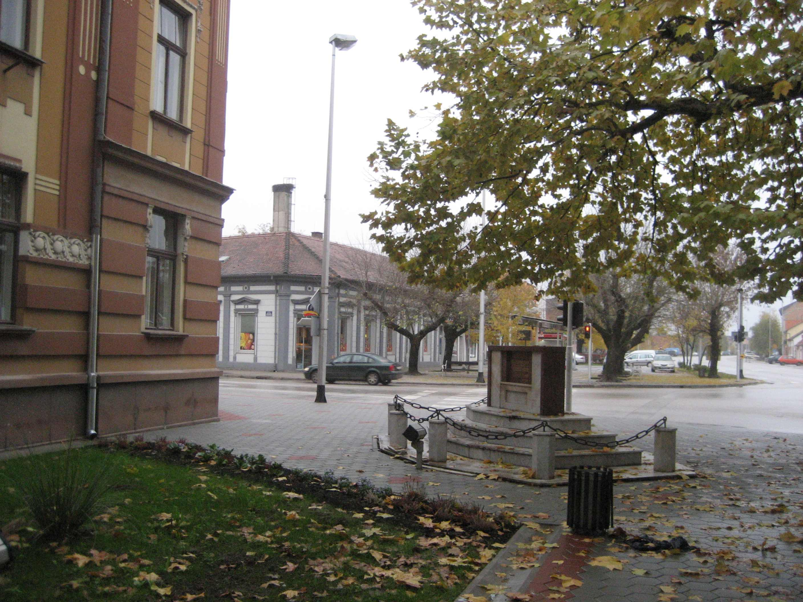 Zupanja,Croatia, old town